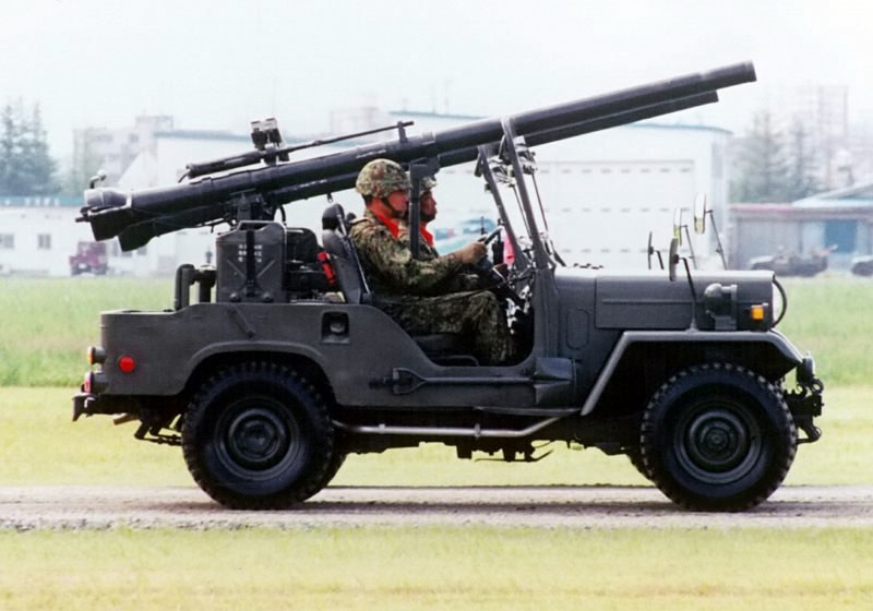 JGSDF Type60 recoilless gun in Sendai.Taken by Los688, at 01-Oct-2000.PD-self. ja:2000年10月1日撮影。陸上自衛隊 60式106mm無反動砲。2両が重なっている。撮影地、霞目駐屯地。